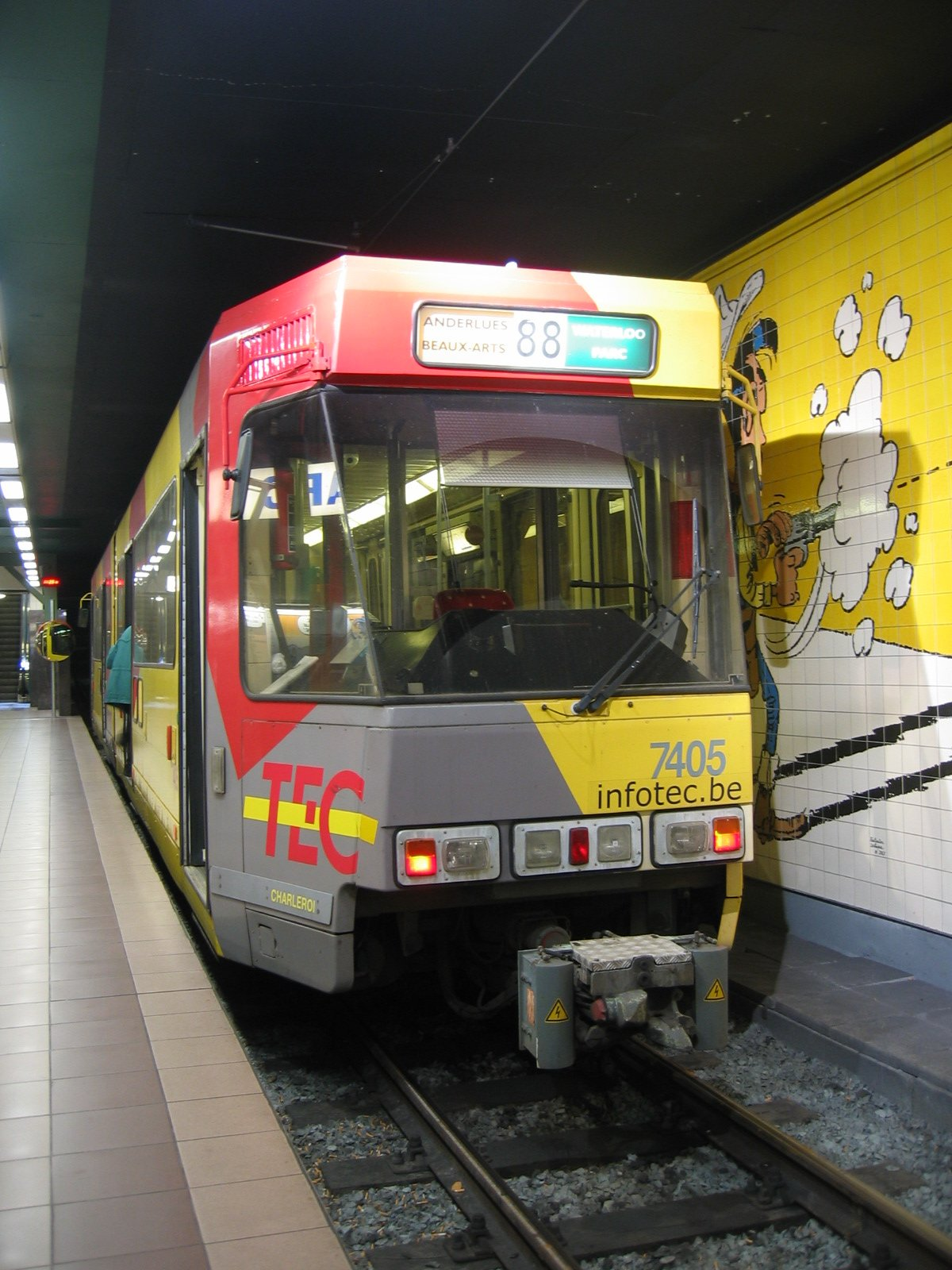 LRV (Light Rail Vehicule) 7405 stands in Parc subway station of the Métro Léger Charleroi (Charleroi Subway), ready for a trip to Anderlues via Beaux-Arts.